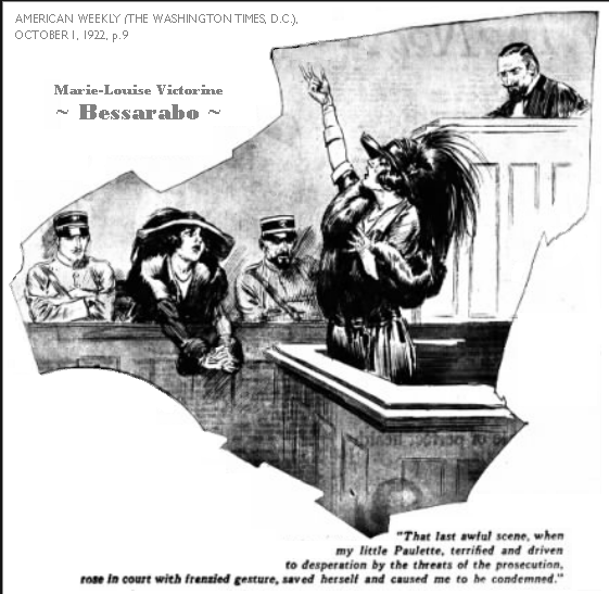 Marie-Louise Victorine Bessarabo